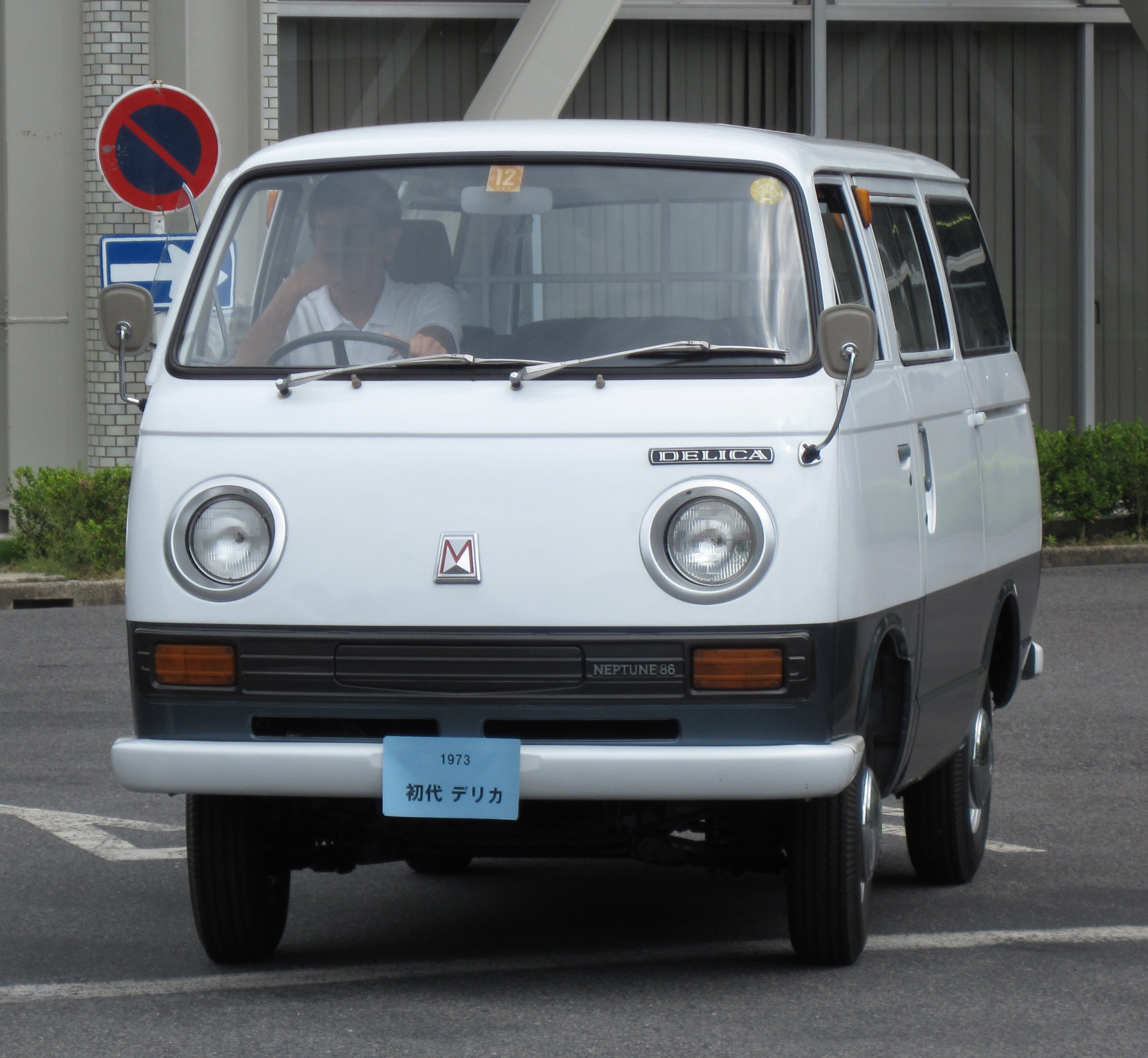 This is a photo of a 1973 Mitsubishi Delica I took outside the museum for the Mitsubishi "Passenger Car Engineering Center" in Okazaki-city, Aichi, Japan